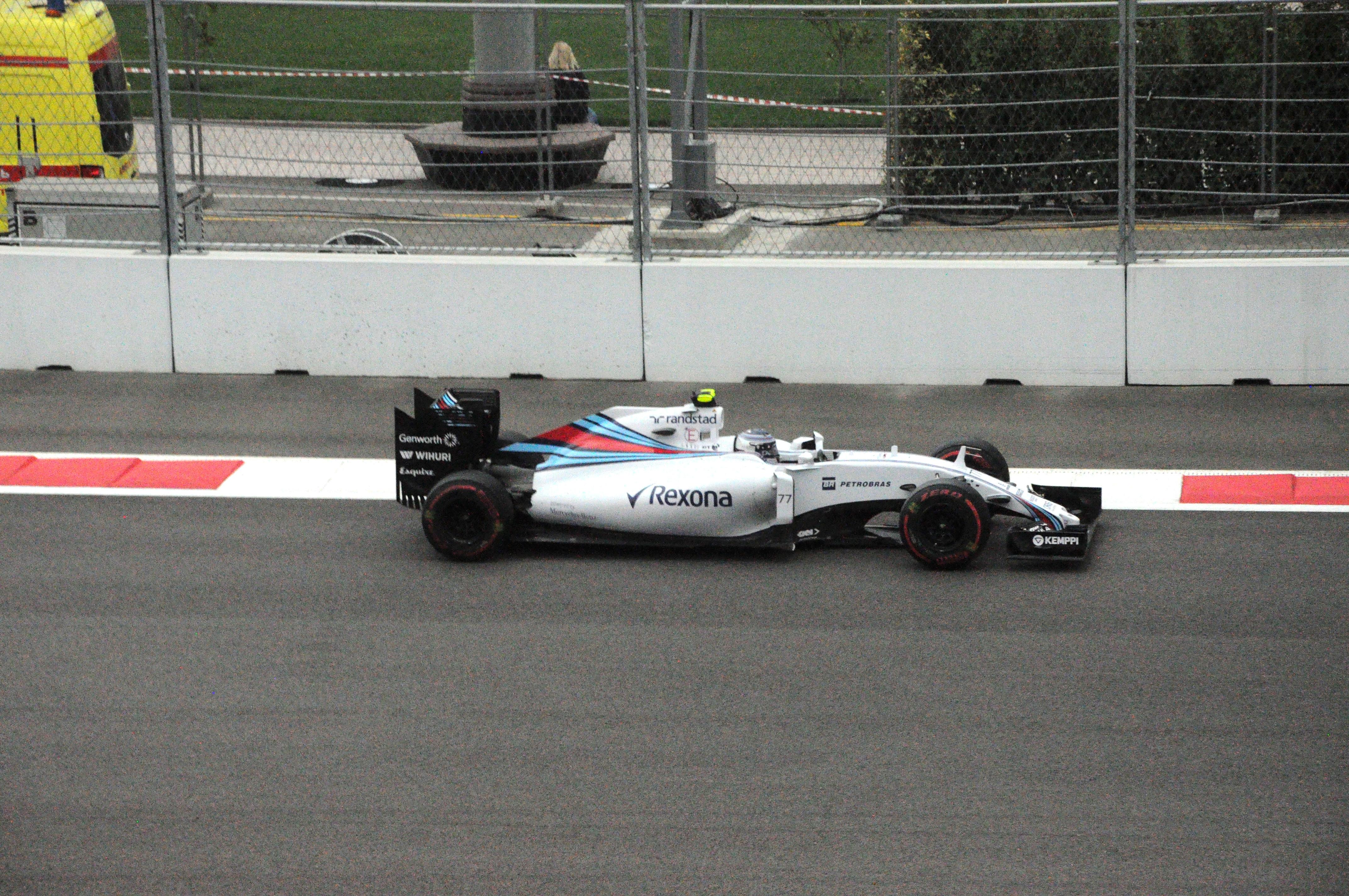 Valtteri Bottas at the 2015 Russian Grand Prix